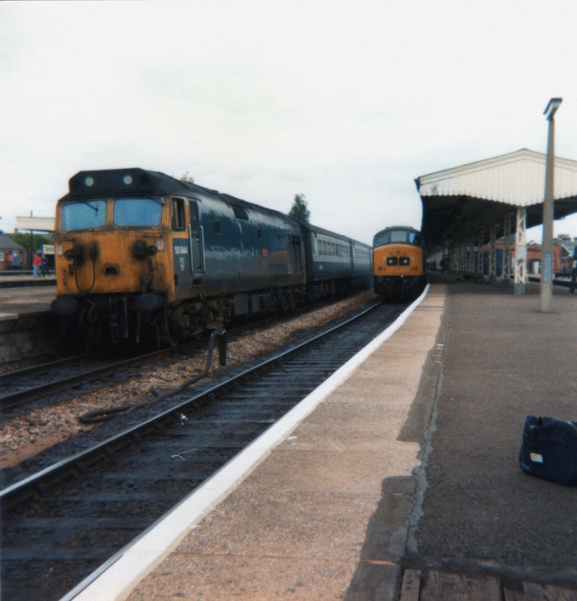 50044 and a 'Peak' at Taunton.